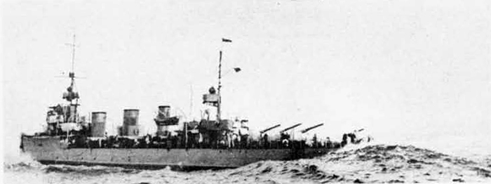 Yakov Sverdlov (ex-Novik)